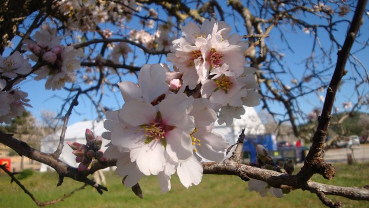 flowers